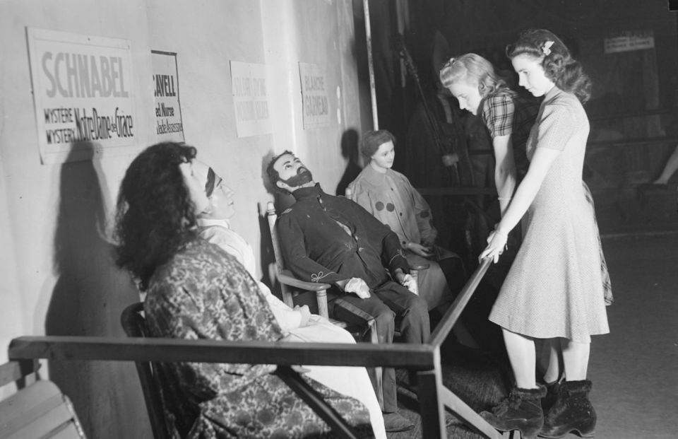 Eden Museum, the St. Lawrence Street in Montreal, presents a collection of wax statues. Eileen Greenwood and Peggy Reilly observe a few.